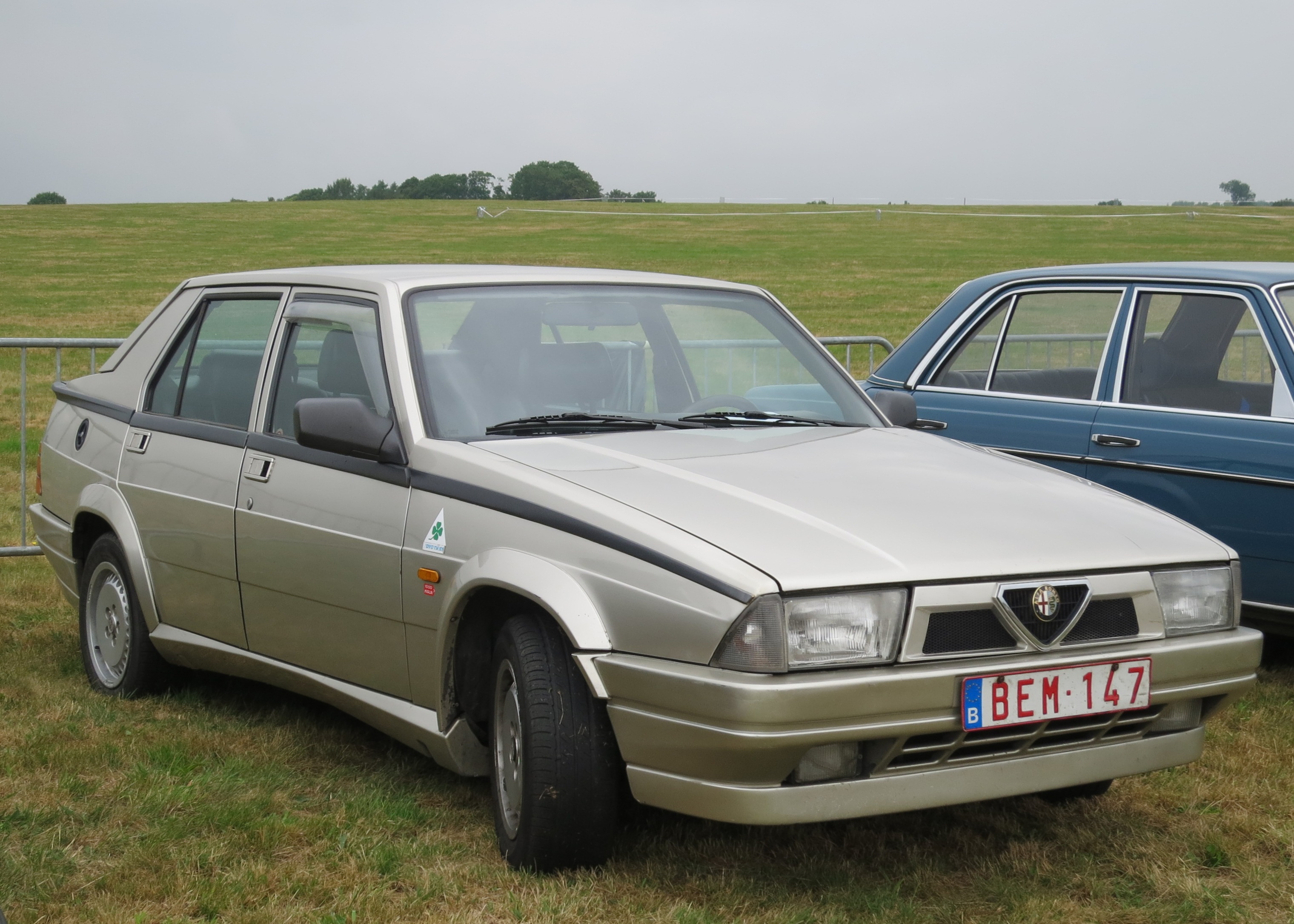 Alfa Romeo 75 Twin Spark 2.0